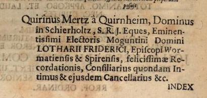 Signature from Quirinus Merz a Quirnheim, Dominus in Schierholz, S.R.J. Eques (Imperial Knight)